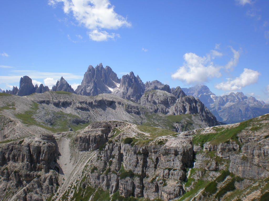 Cadini di Misurina.